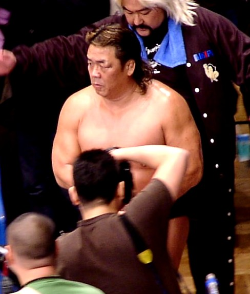 Riki Chōshū at Riki Pro event, at the Korakuen Hall on January 5, 2006.